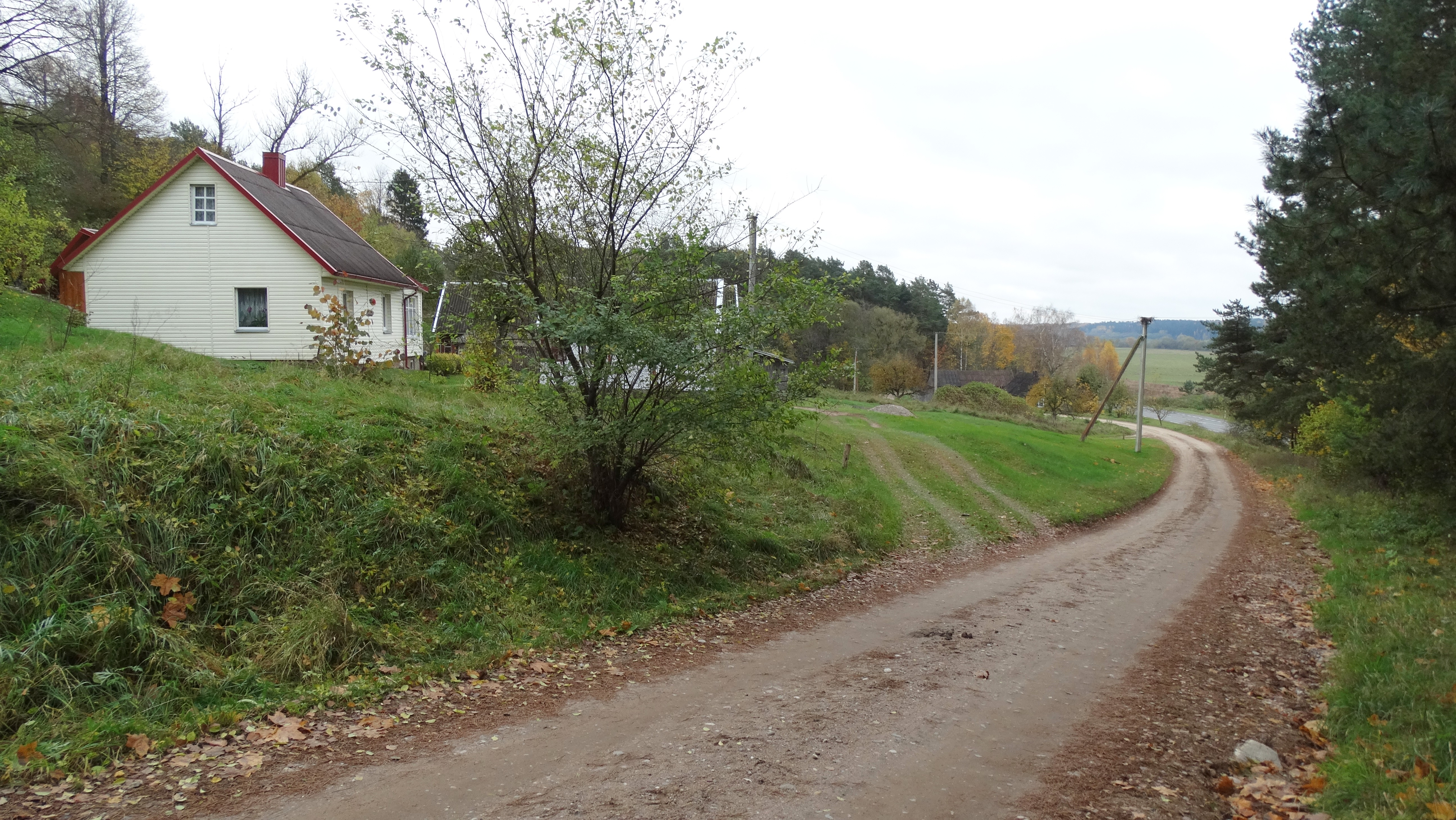 Graužėnai, Jurbarkas District, Lithuania